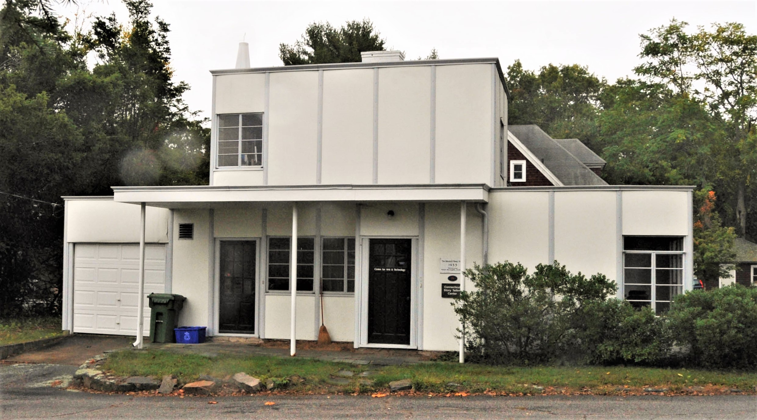 1933; PREFABRICATED MODULAR INTERNATIONAL STYLE HOME; IT WAS BUILT BY WINSLOW AMES, PROFESSOR OF ART HISTORY AT CONNECTICUT COLLEGE AND ART DIRECTOR OF THE LYMAN ALLYN MUSEUM ON WHICH GROUNDS THE HOUSE STANDS